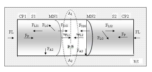 Molecular power 14. Formation of the thermodynamic Gibbs p-n transition in horizontal paired capillary with hydrophilic and hydrophobic surfaces.